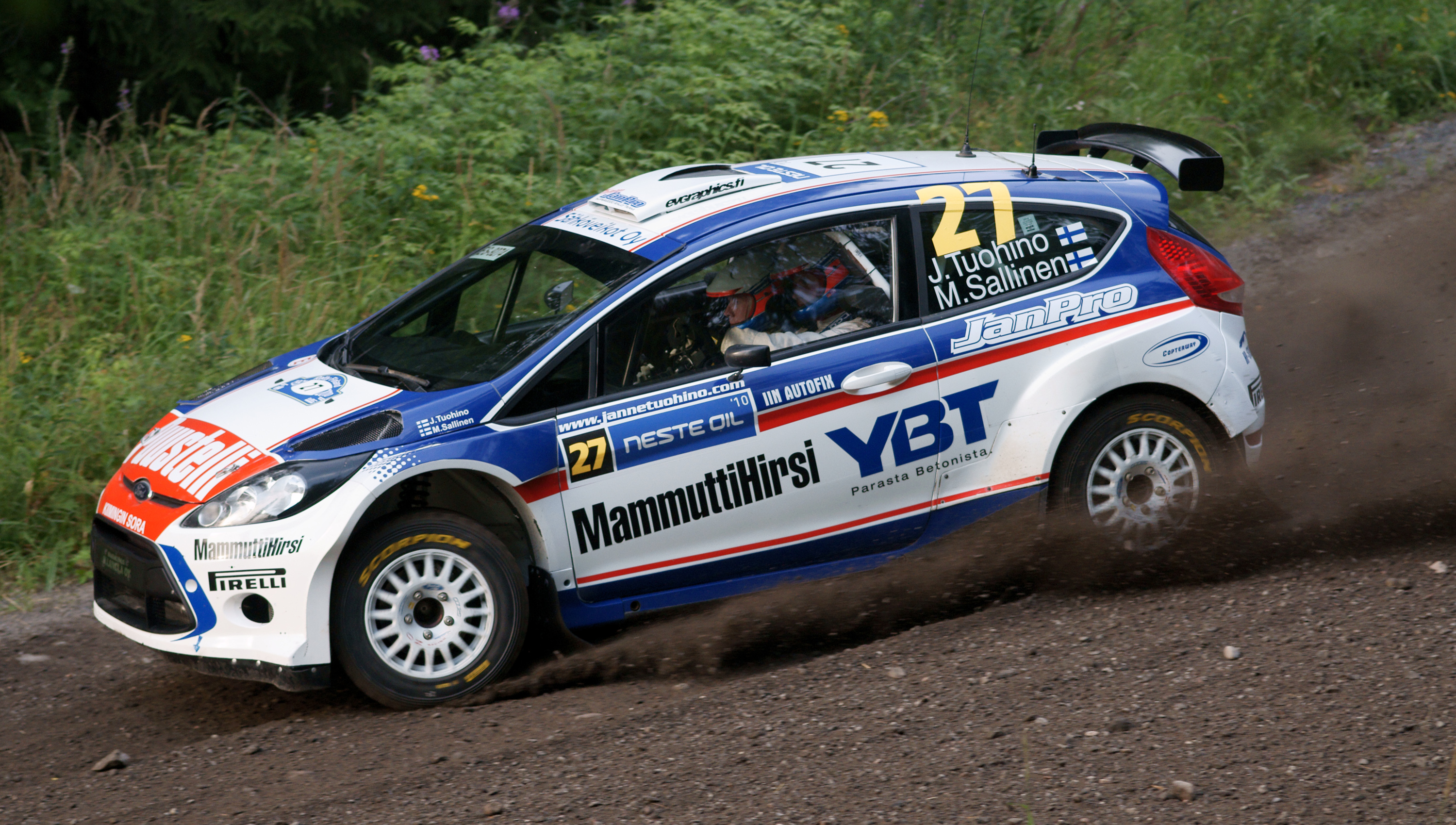 Janne Tuohino driving at Laajavuori special stage, Rally Finland 2010.